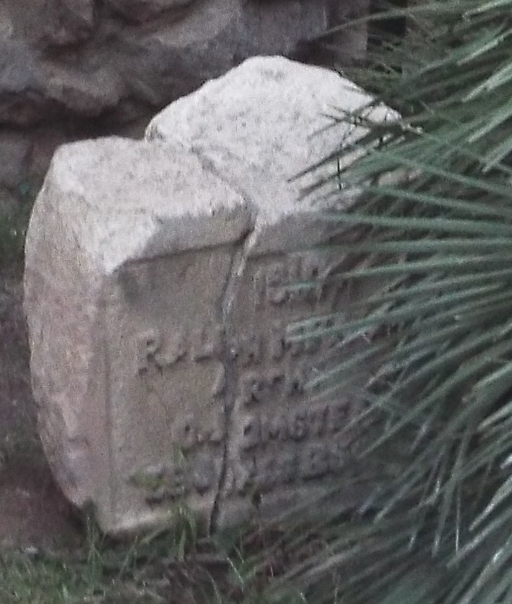 Sacred Heart Church-1897-Bell Stone Marker in Nogales, AZ